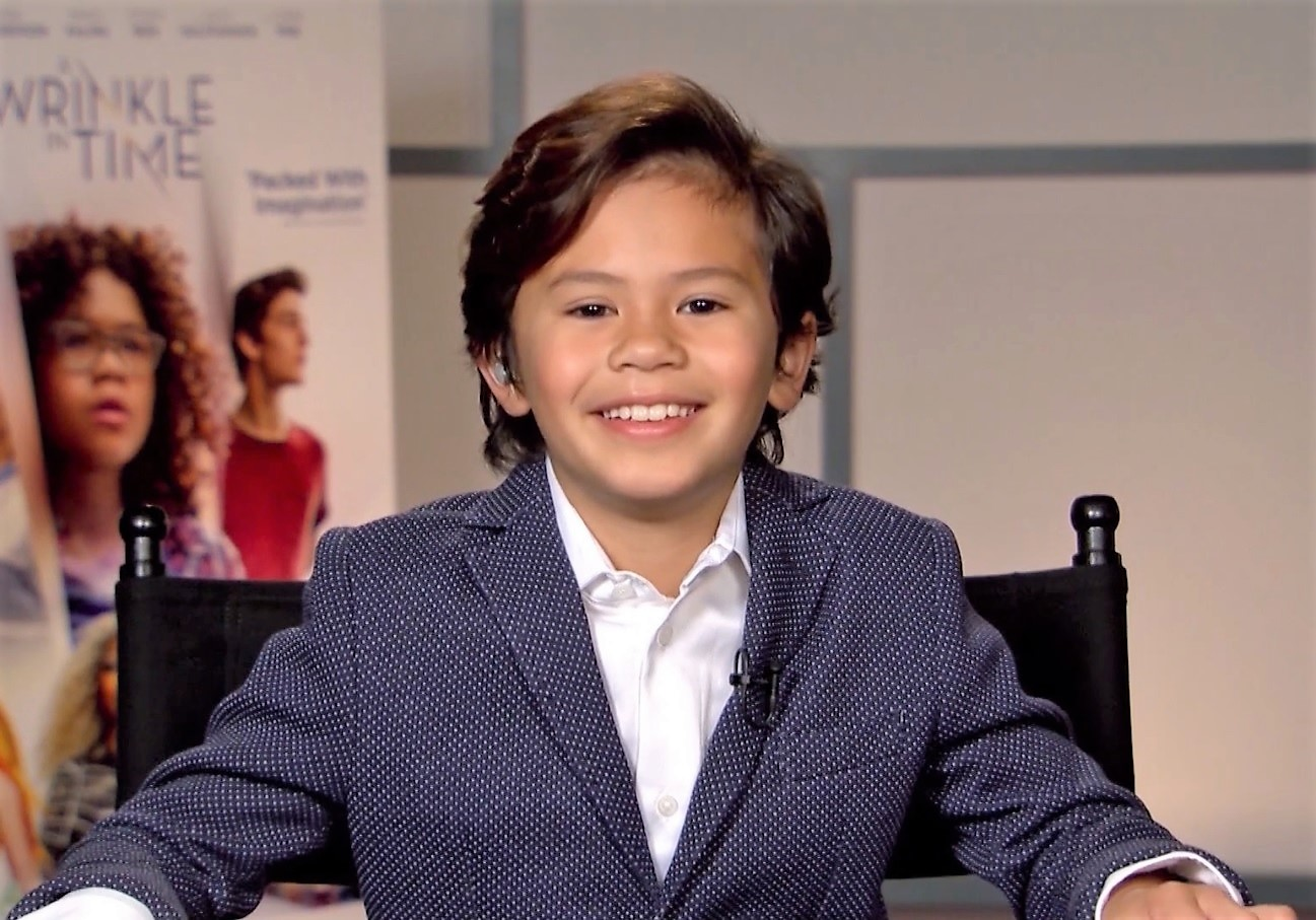 SIDEWALKS host Veronica Castro talks to Deric McCabe on why he wanted to become an actor, making the movie "A Wrinkle in Time," and working with on-screen sister Storm Reid and how he met Oprah Winfrey.